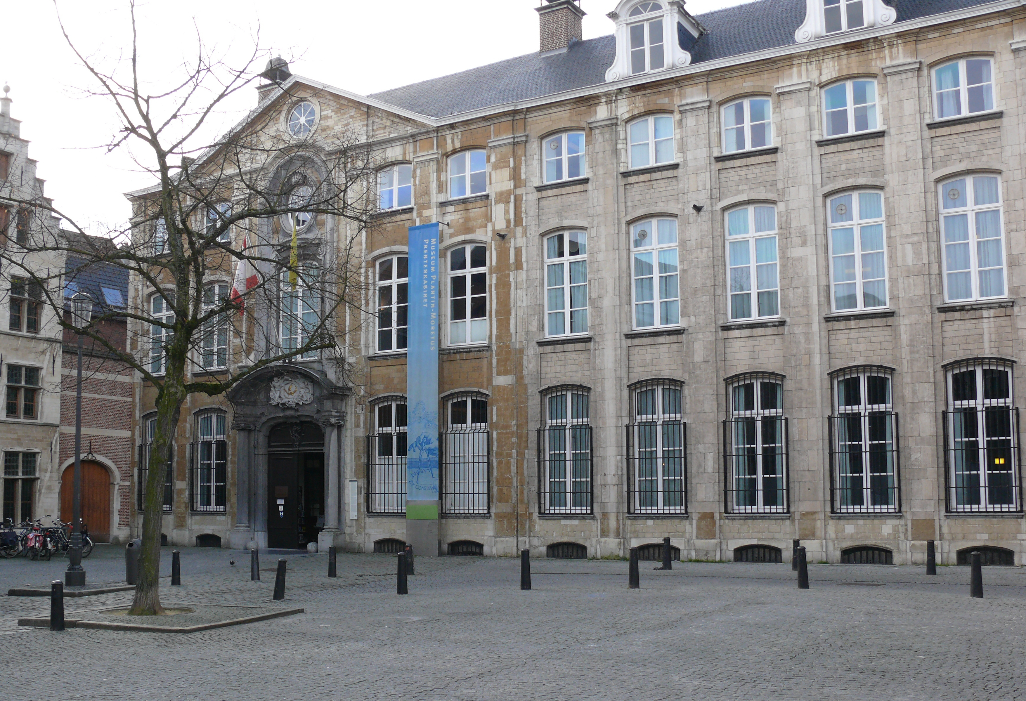 Museum Plantin Moretus (Antwerp).